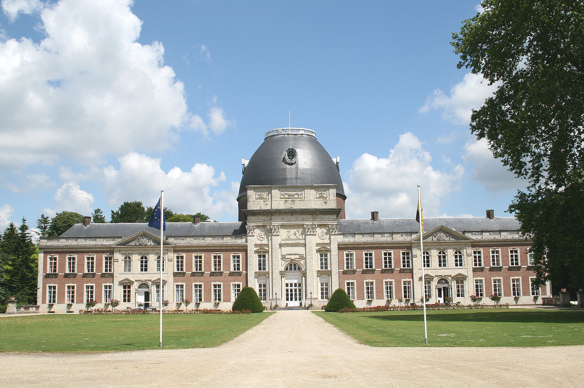 Opheylissem, the two prelacy wings and the tower church of the previous abbey (1760-1780). Walon: Opélissème, lès deûs costès dol prélatûre, li toûr di l'èglîje èt l'coûr d'oneûr di l'ancyin.ne abéye (1760-1780).